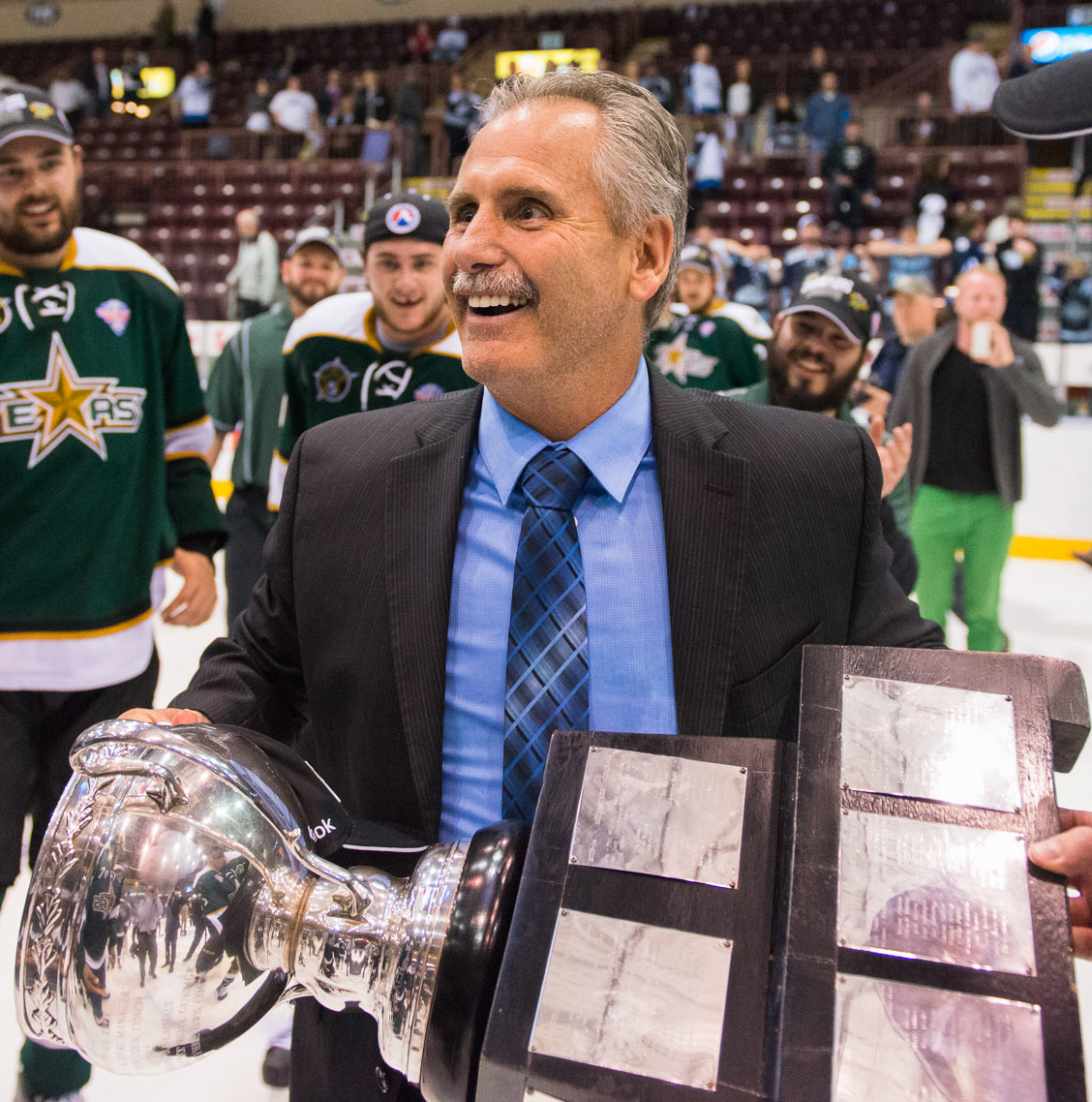 Photo: Colin Peddle/AHL